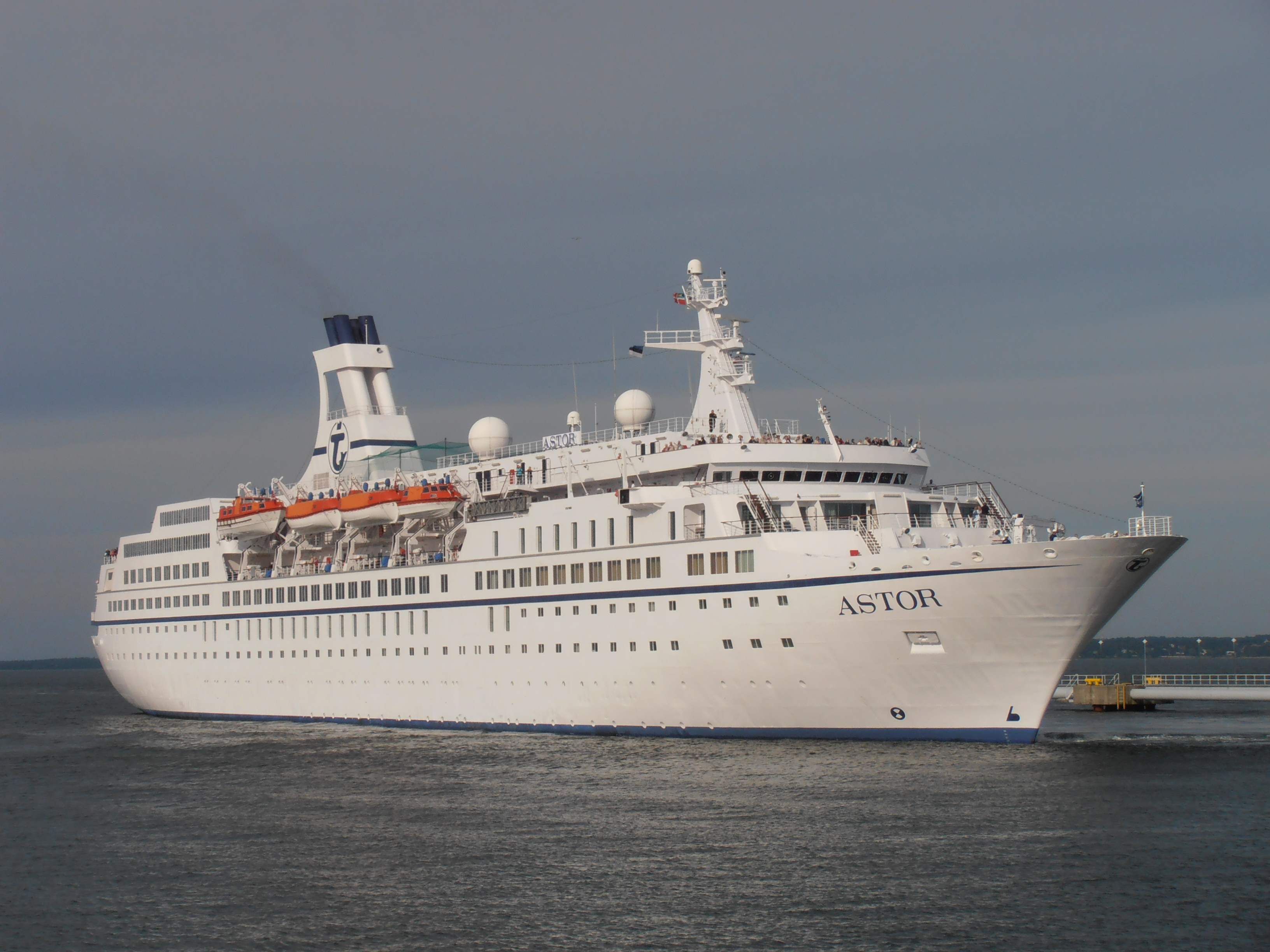 Astor Bow departing Tallinn 31 August 2012.JPG